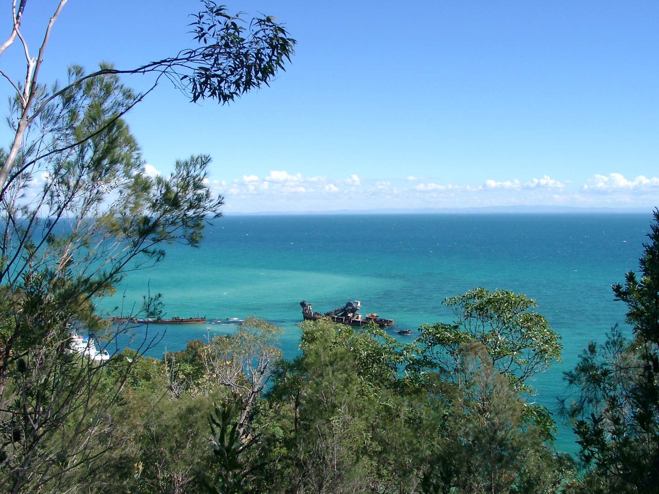 View of the Tangalooma Wrecks and Moreton Bay towards Brisbane from Moreton Island. The picture was taken by me on 2002-06-02.